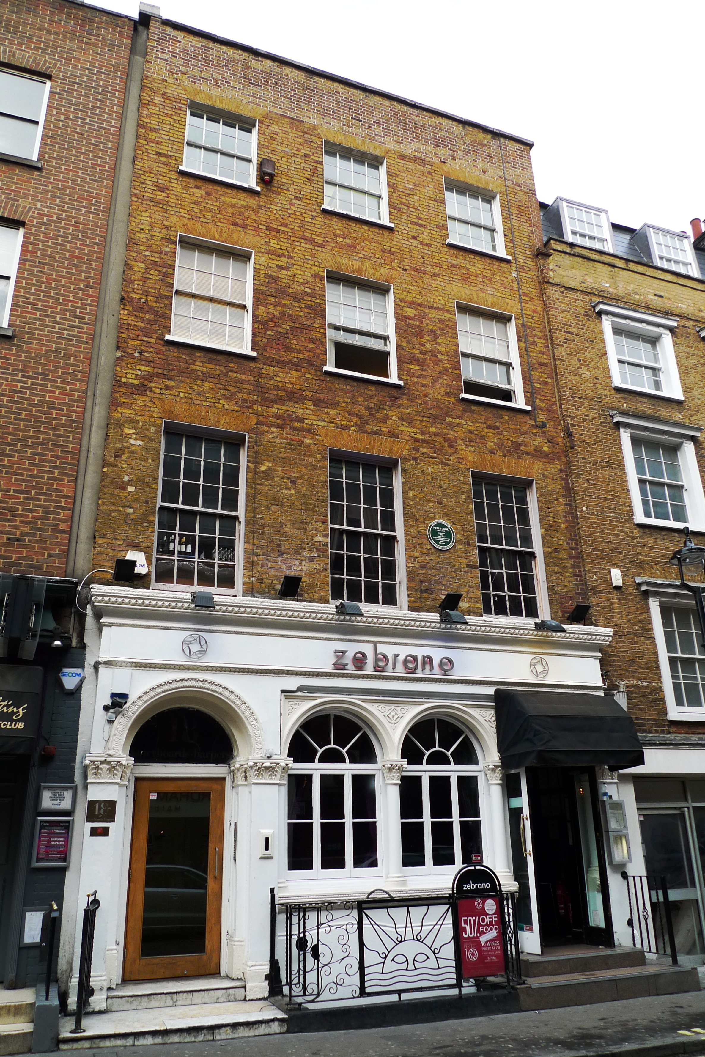 A bar in Soho, one of many. There's a plaque to Peter Cook on it (not sure why exactly). Address: 18 Greek Street. Former Name(s): Boardwalk. Owner: (website). Links: Beer in the Evening (Boardwalk)